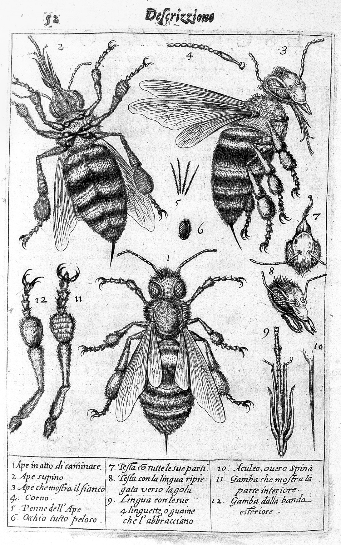 The first published drawings of natural objects seen under the microscope. The drawings of a bee and its parts. Rare Books Keywords: Entomology; Microscopy; Francesco Stelluti